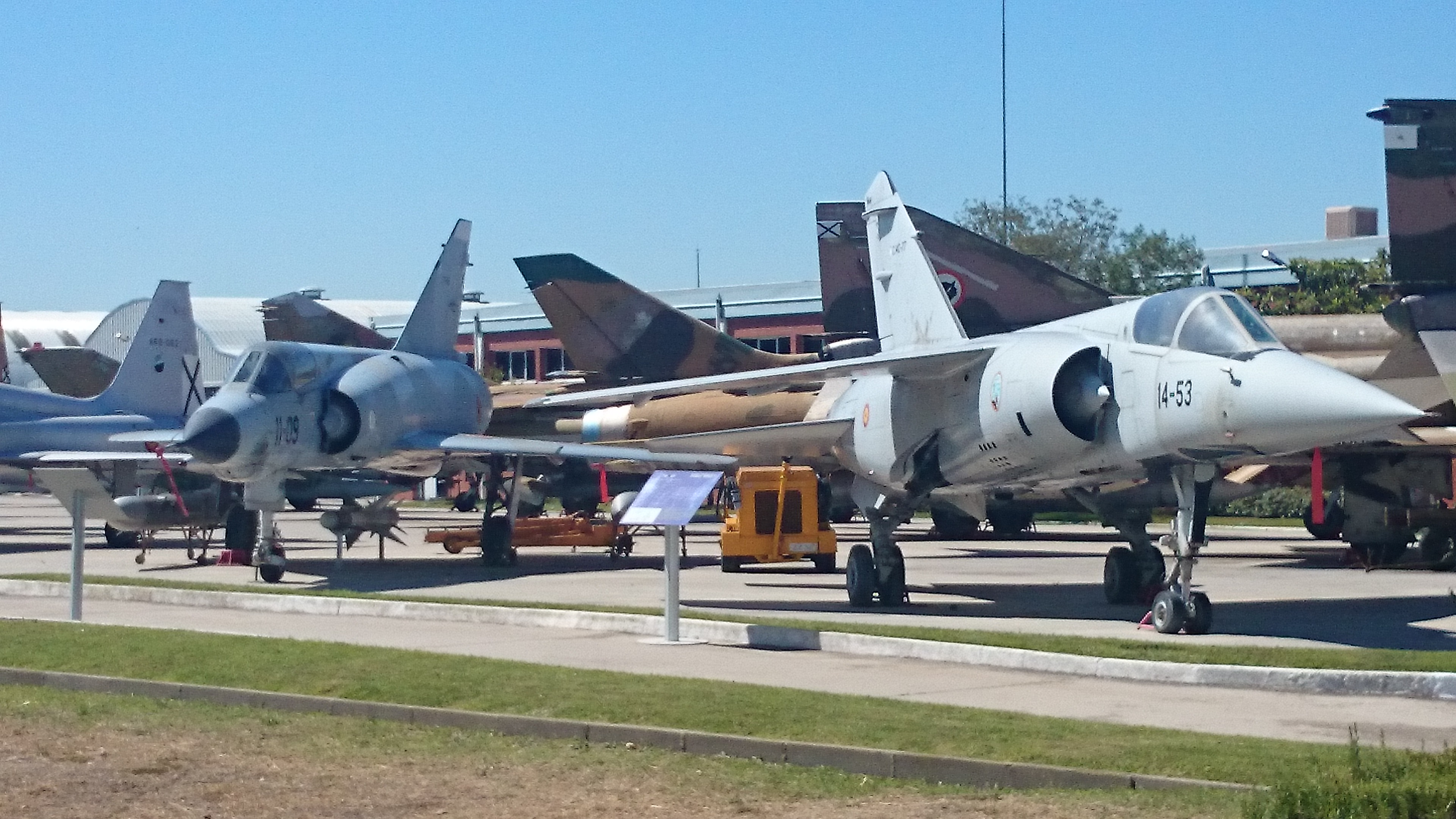 Ex Spanish Airforce Mirage F-1 and Mirage III in Museo del Aire, Madrid